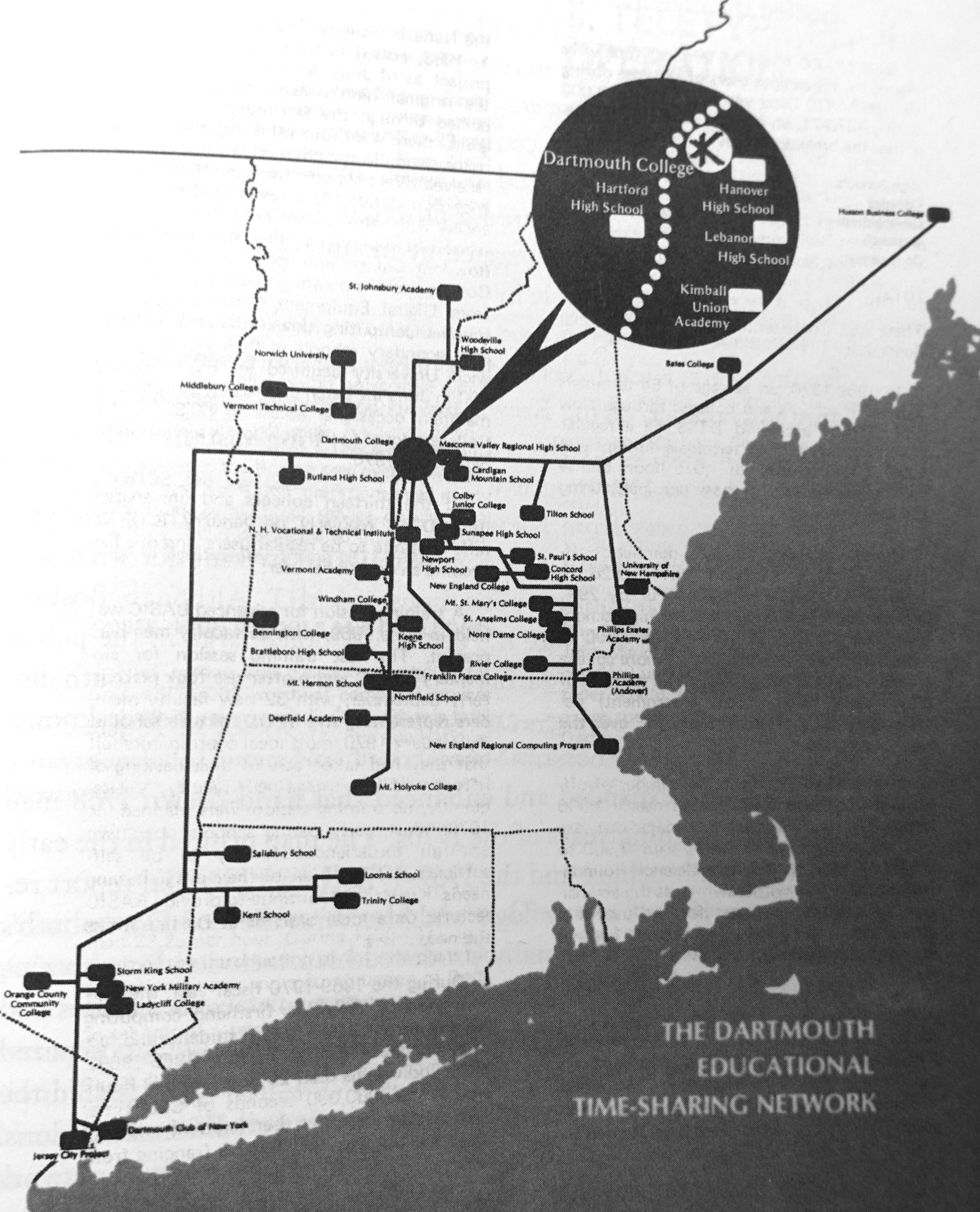 Dartmouth Educational Time-Sharing Network (Kiewit Network), from The Kiewit Computing Center and the Dartmouth Time-Sharing System - Dartmouth College, early 1971.